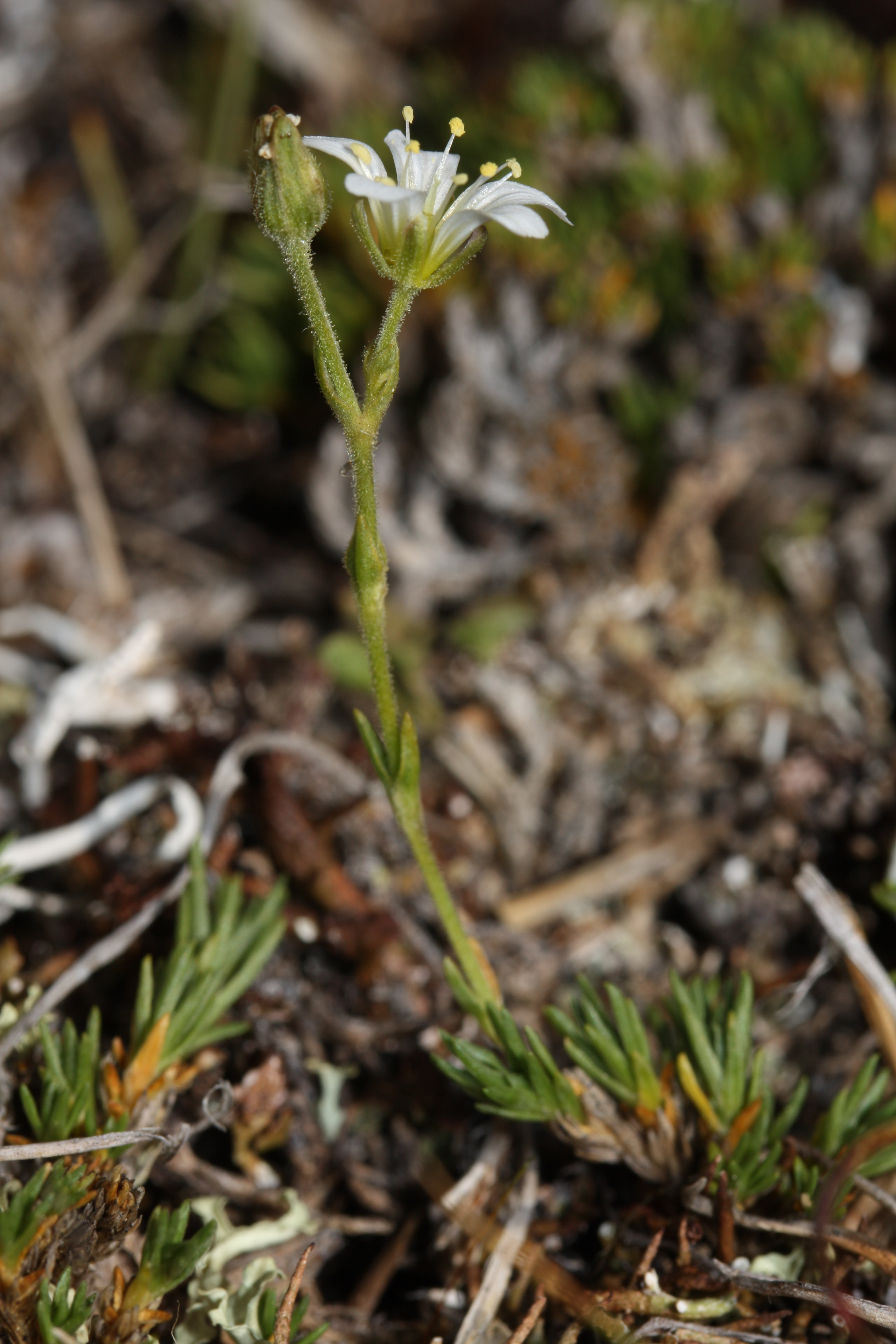 Fescue Sandwort